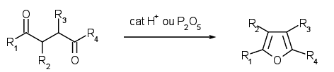 furan synthesis of Paal Knorr